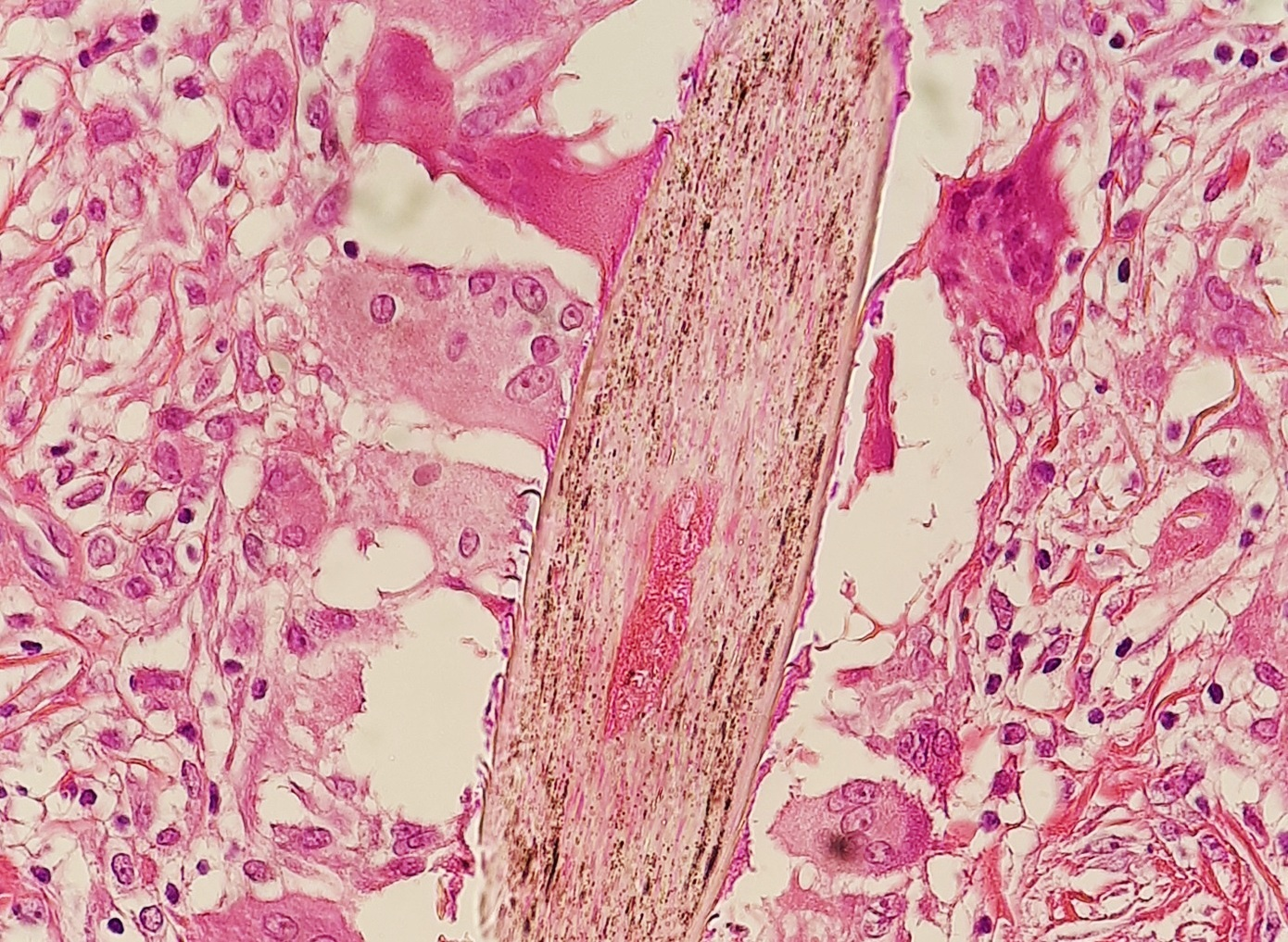 Histopathology of granulomatous folliculitis, showing multinucleaded giant cells around a hair. It was an incidental finding, without known cause, on a skin excision taken because of a suspected non-radical squamous cell carcinoma.